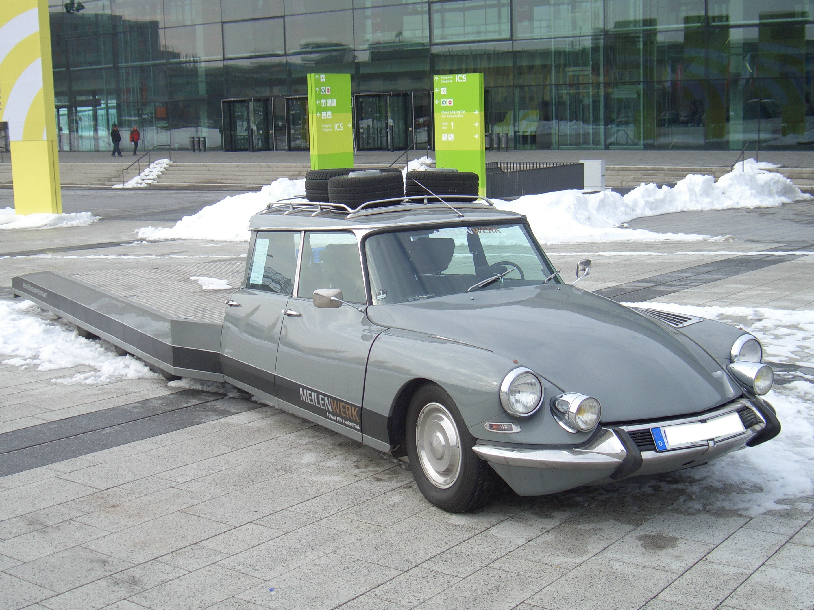 Citroen DS Tissier conversion, 1970, promotional car of MEILENWERK Stuttgart, seen at RETRO CLASSICS, Stuttgart